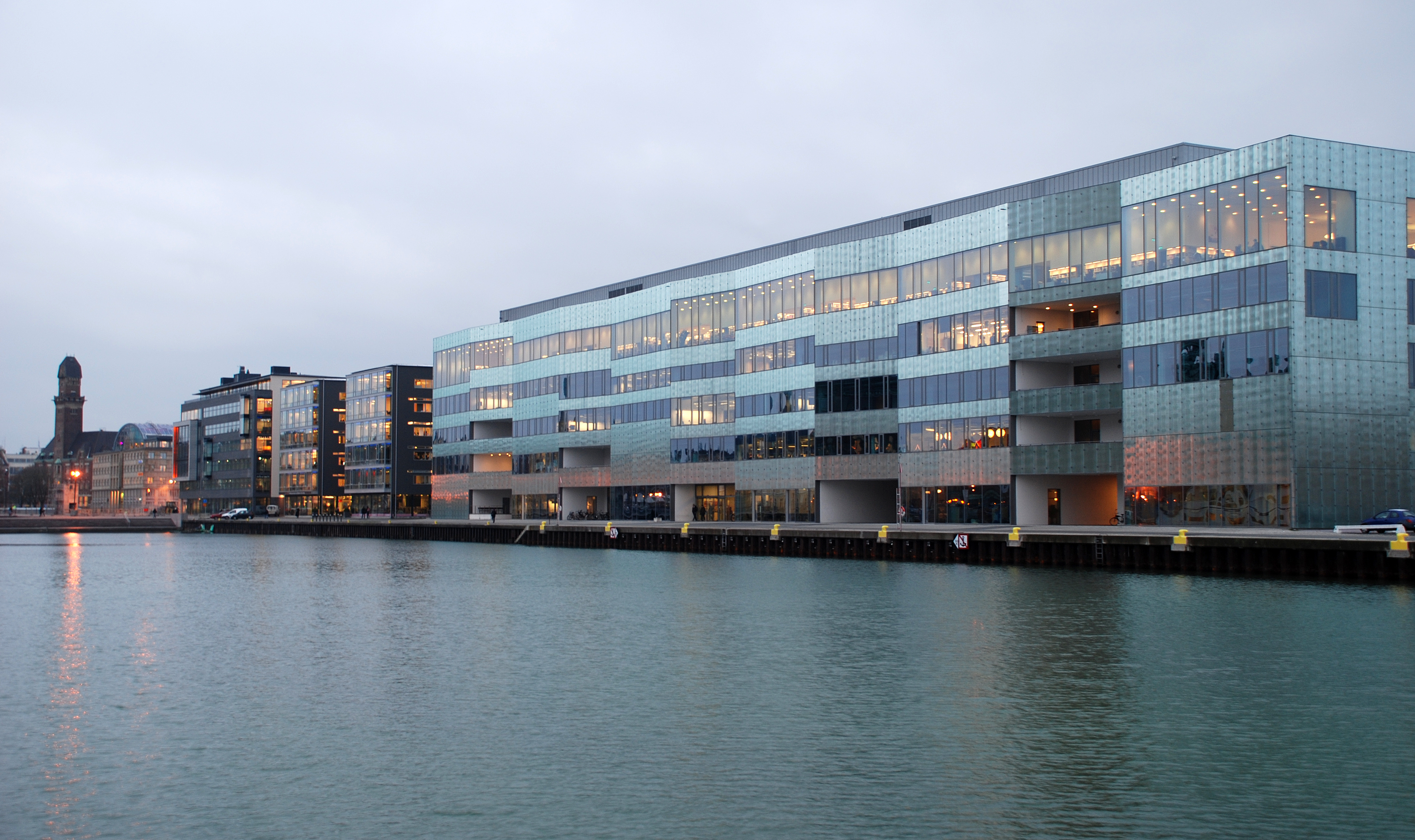 Hjälmarekajen in Malmö, Sweden